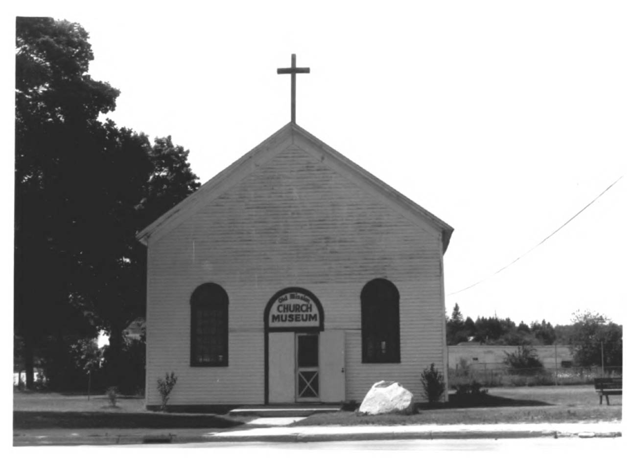 St Ignace Mission, St Ignace MI